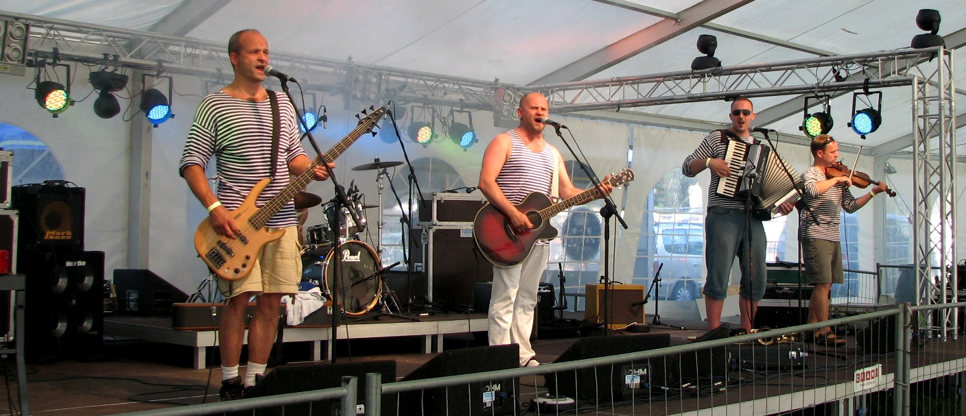 An Estonian band Vanaviisi performing in Õlletoober 2010